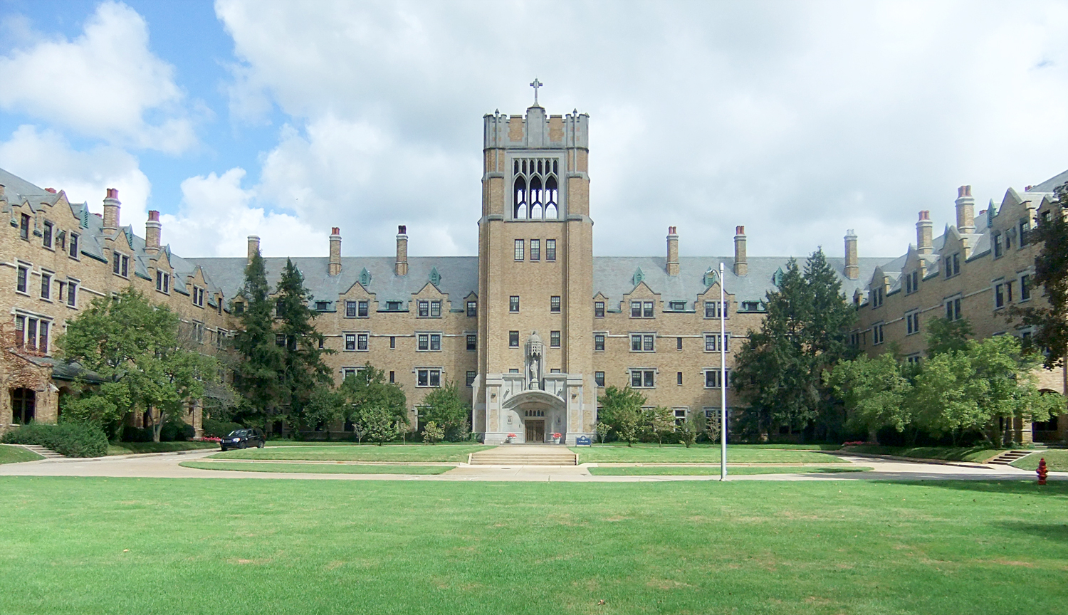 La Mans Hall dormitory on Saint Mary's College campus in honnor of Le Mans carmel